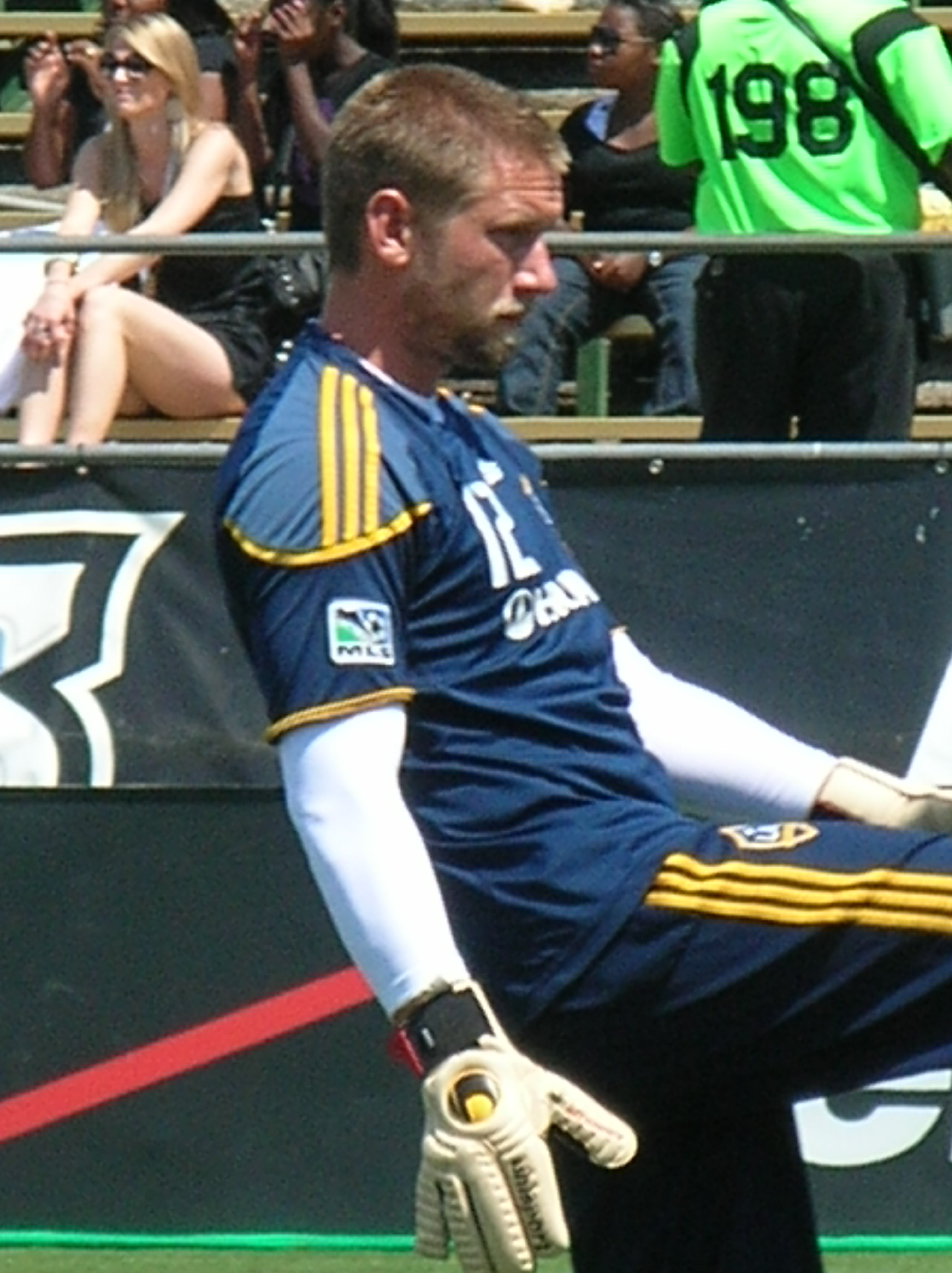 LA Galaxy goalkeeper Josh Saunders warming up before an away game against the San Jose Earthquakes. The Earthquakes won 1-0.